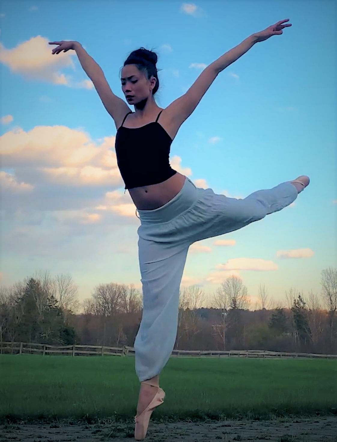 Swans For Relief - Stella Abrera, American Ballet Theatre, USA Donate: 32 premier ballerinas from 22 dance companies in 14 countries perform Le Cygne (The Swan) variation sequentially in support of Swans for Relief. Organized by Misty Copeland and Joseph Phillips, 100% of the funds raised will be distributed to each dancer’s company’s COVID-19 relief fund, or other arts/dance-based relief fund in the event that a company is not set up to receive donations. To donate please visit, Ballet companies are largely dependent on revenue from performances to pay their dancers and fund their operations, but due to the coronavirus pandemic, all performances have been halted. Consequently, many dancers are unable to depend on paychecks and are facing the hardship of paying rent and/or buying food and other necessities. Le Cygne (The Swan) with music by Camille Saint-Saëns, performed by cellist Wade Davis (USA), with choreography by Michel Fokine by kind permission of the Fokine Estate-Archive.